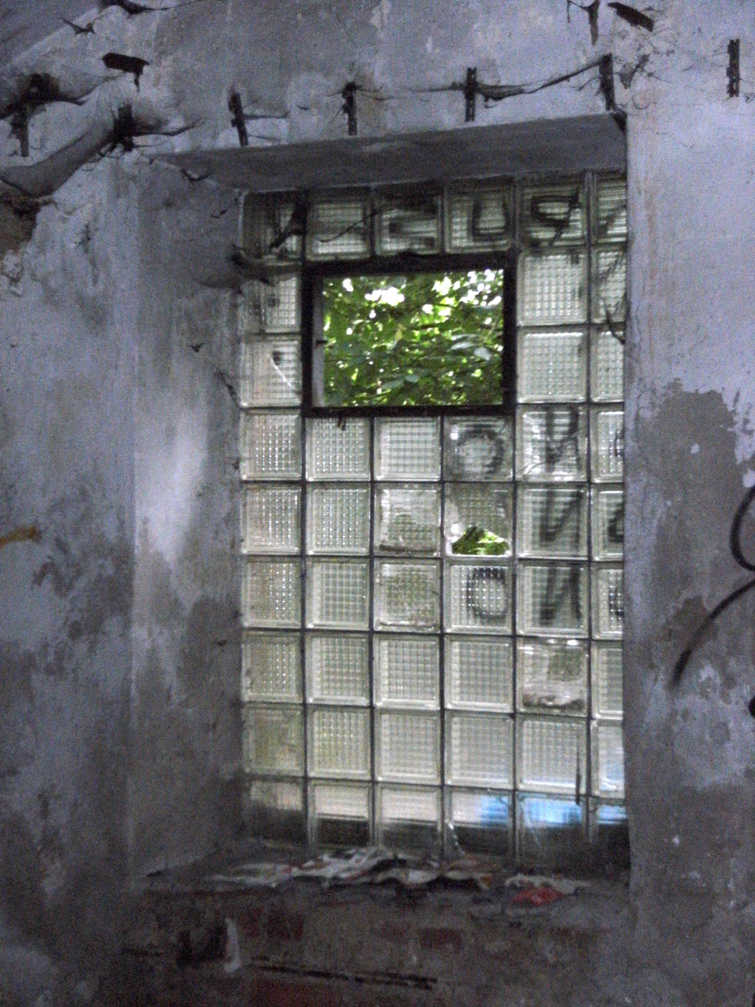 Glass block window, factory ruins, graffiti, České Budějovice.